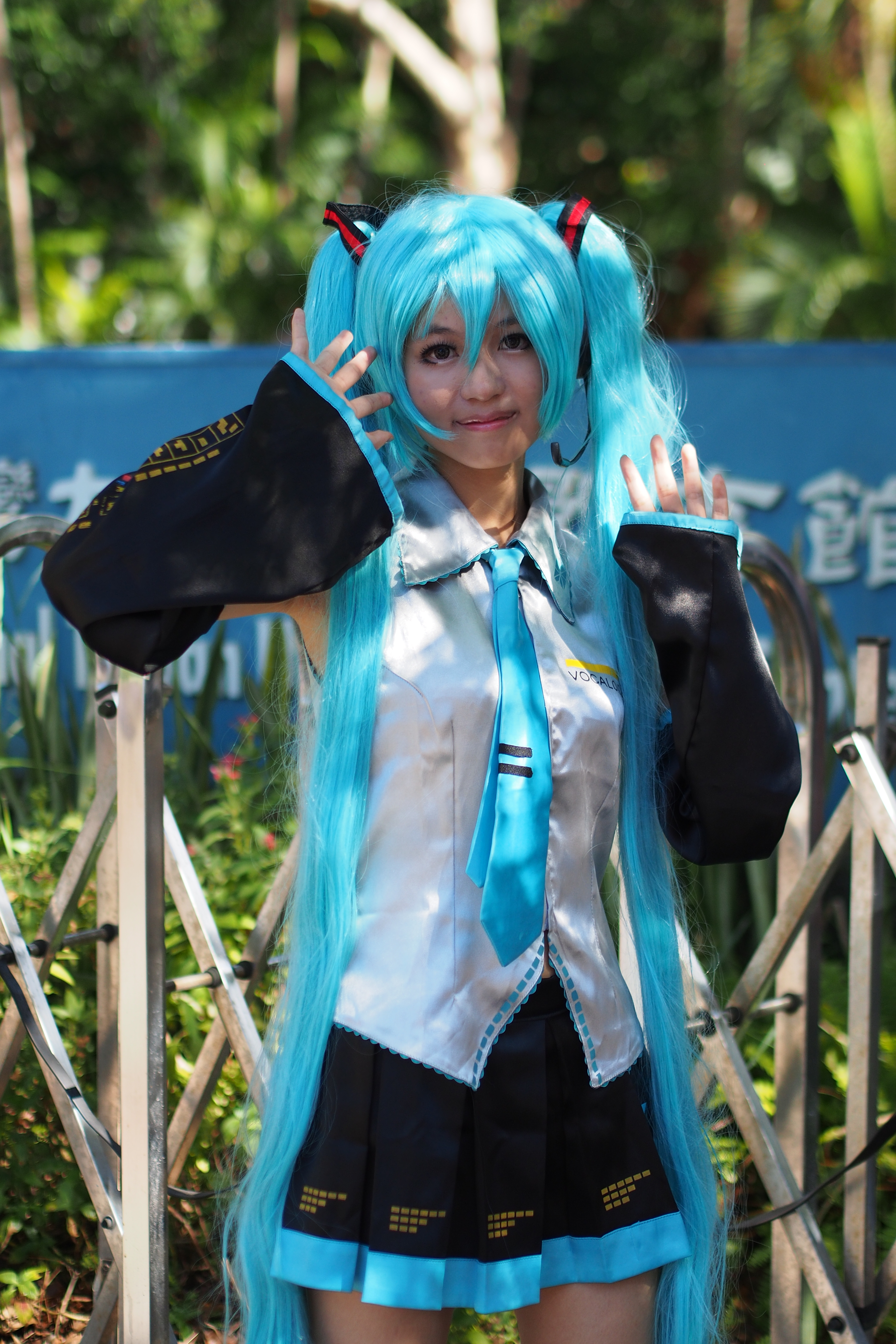 P7280710 Fancy Frontier 20